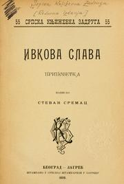 Ivkova slava, by Sremac, Stevan, 1855-1906 Publication date 1899 Publisher Beograd Stampano u Srpskoj stampariji u Zagrebu Collection robarts; toronto Digitizing sponsor University of Toronto Contributor Robarts - University of Toronto Language srp